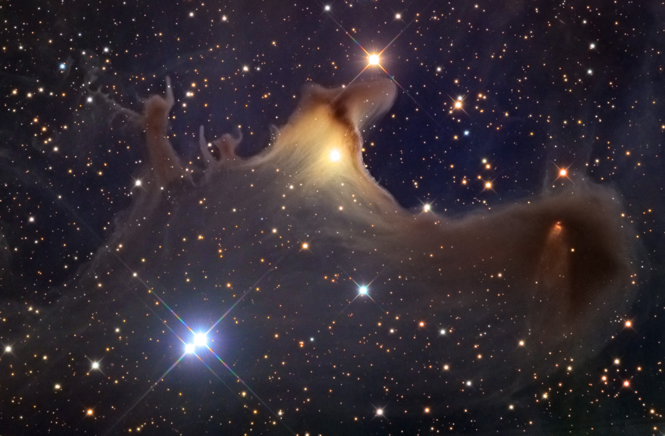 Environment of L1177